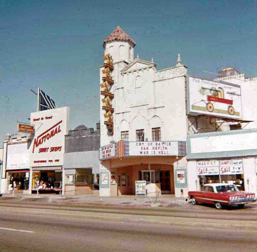 Texas Theater, Dallas, 1963. Location where Lee Harvey Oswald was arrested after the assassination of President Kennedy.